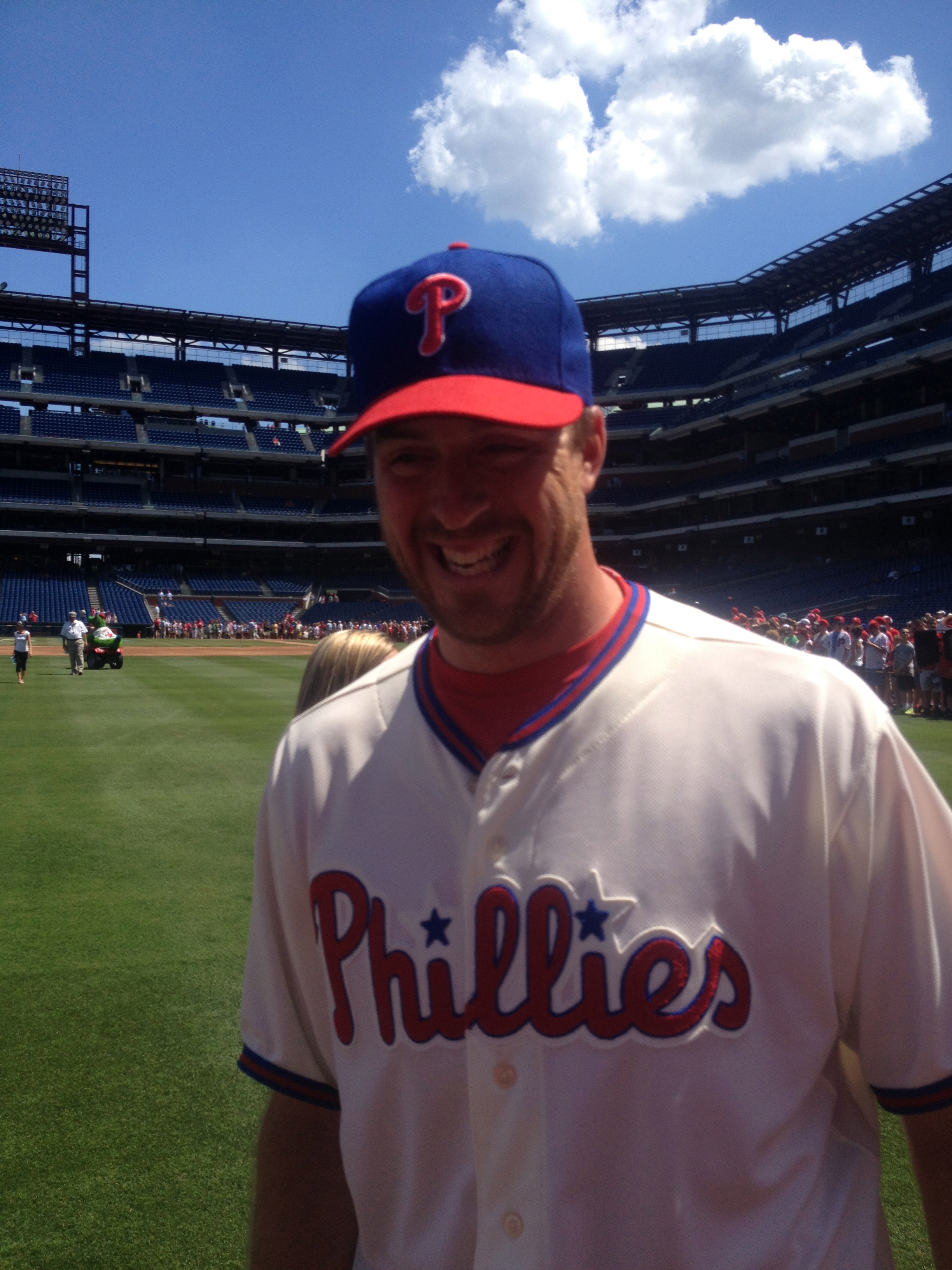 A picture of Erik Kratz at Phillies photo day.